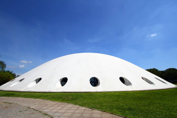 Pavilhão da Oca, Parque do Ibirapuera.. Pavilhão da Oca, Parque do Ibirapuera., São Paulo.